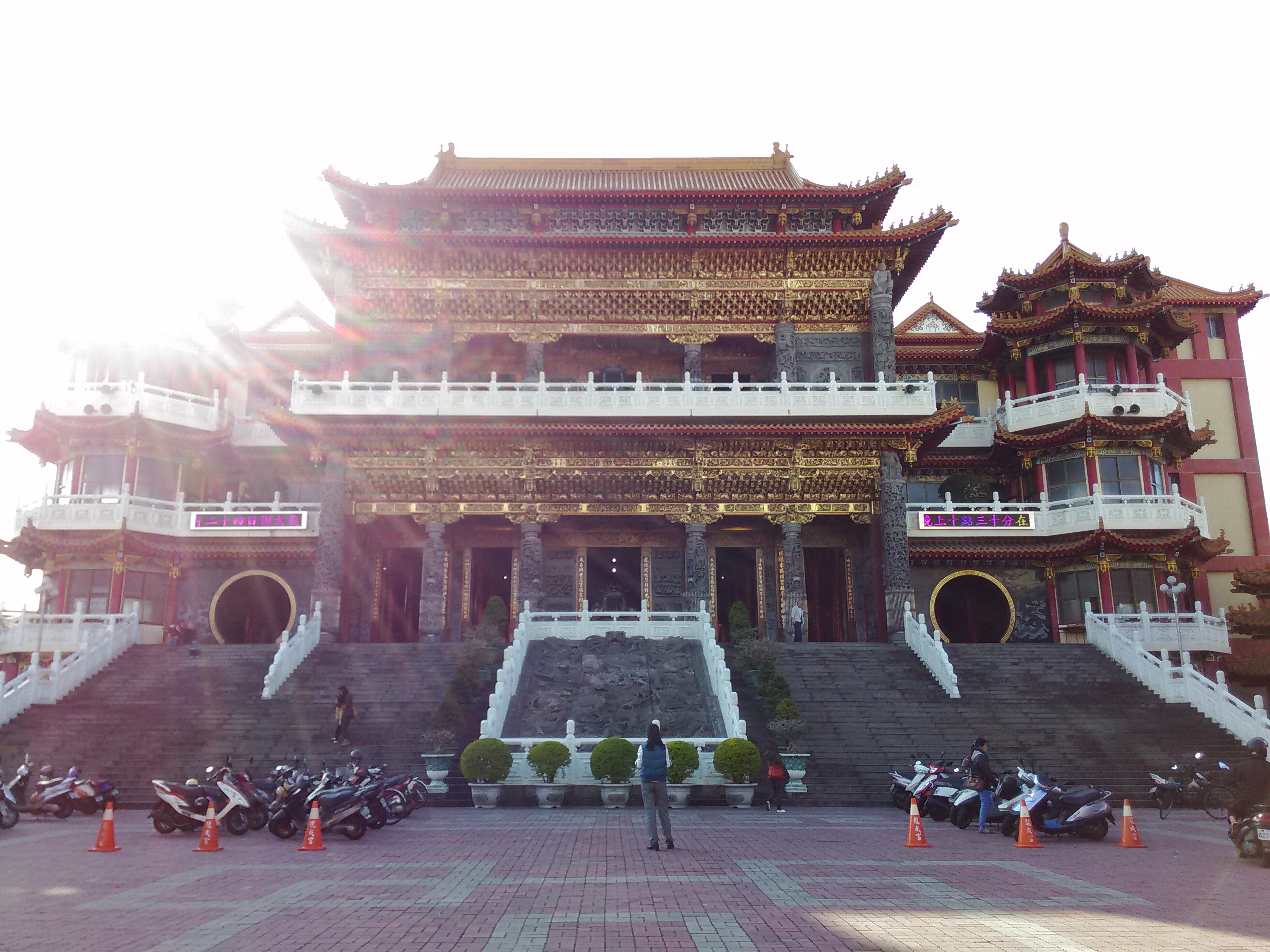 五甲龍成宮